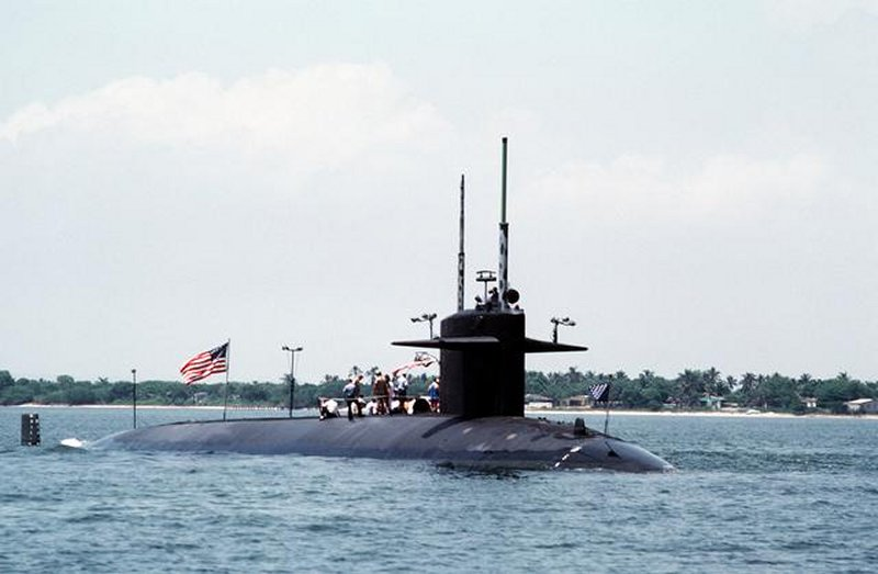 USS Greenling SS-614 Category: Permit class submarines